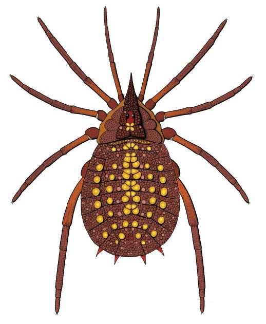 A reconstruction of trigonotarbid arachnid Eophrynus prestvicii (Buckland, 1837), with colouration based on modern laniatorid harvestmen (Opiliones: Laniatores).